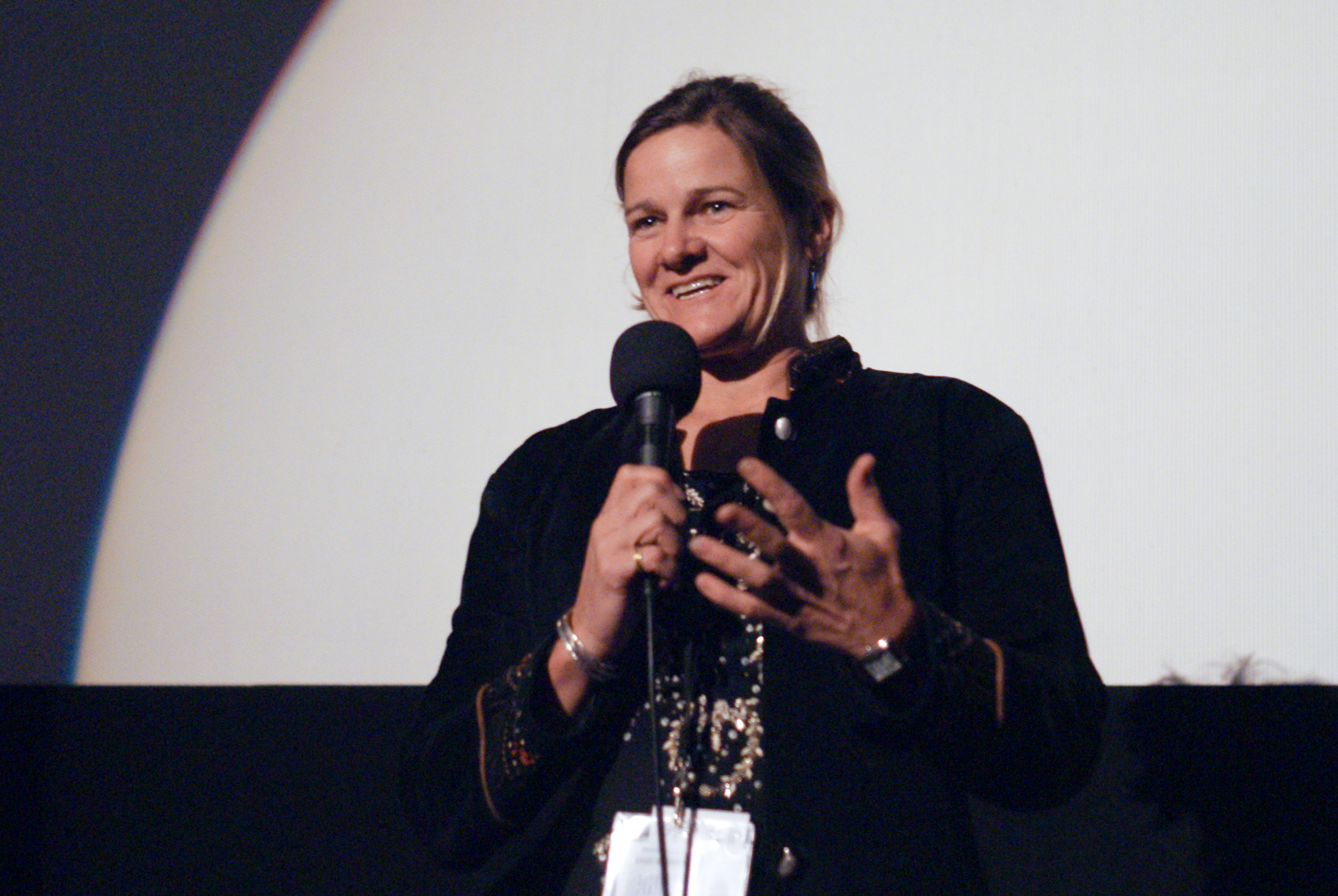 Ellen Kuras at the Mill Valley Film Festival in 2008